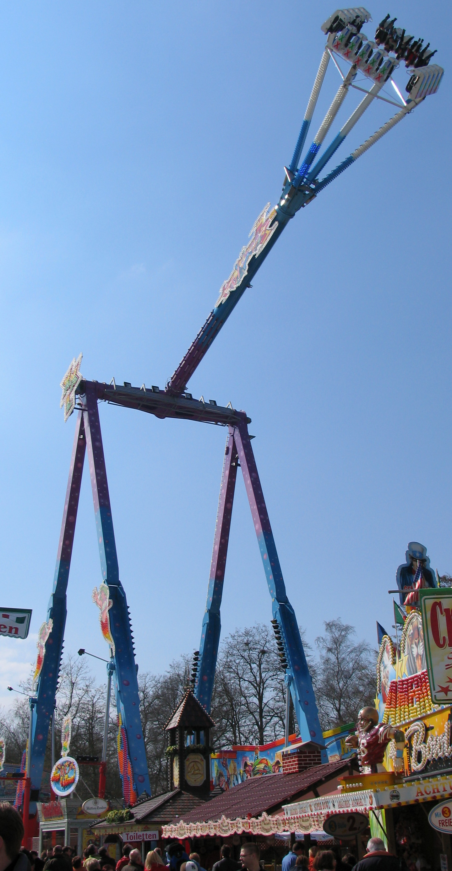 KMG XXL at Funfair in Recklinghausen